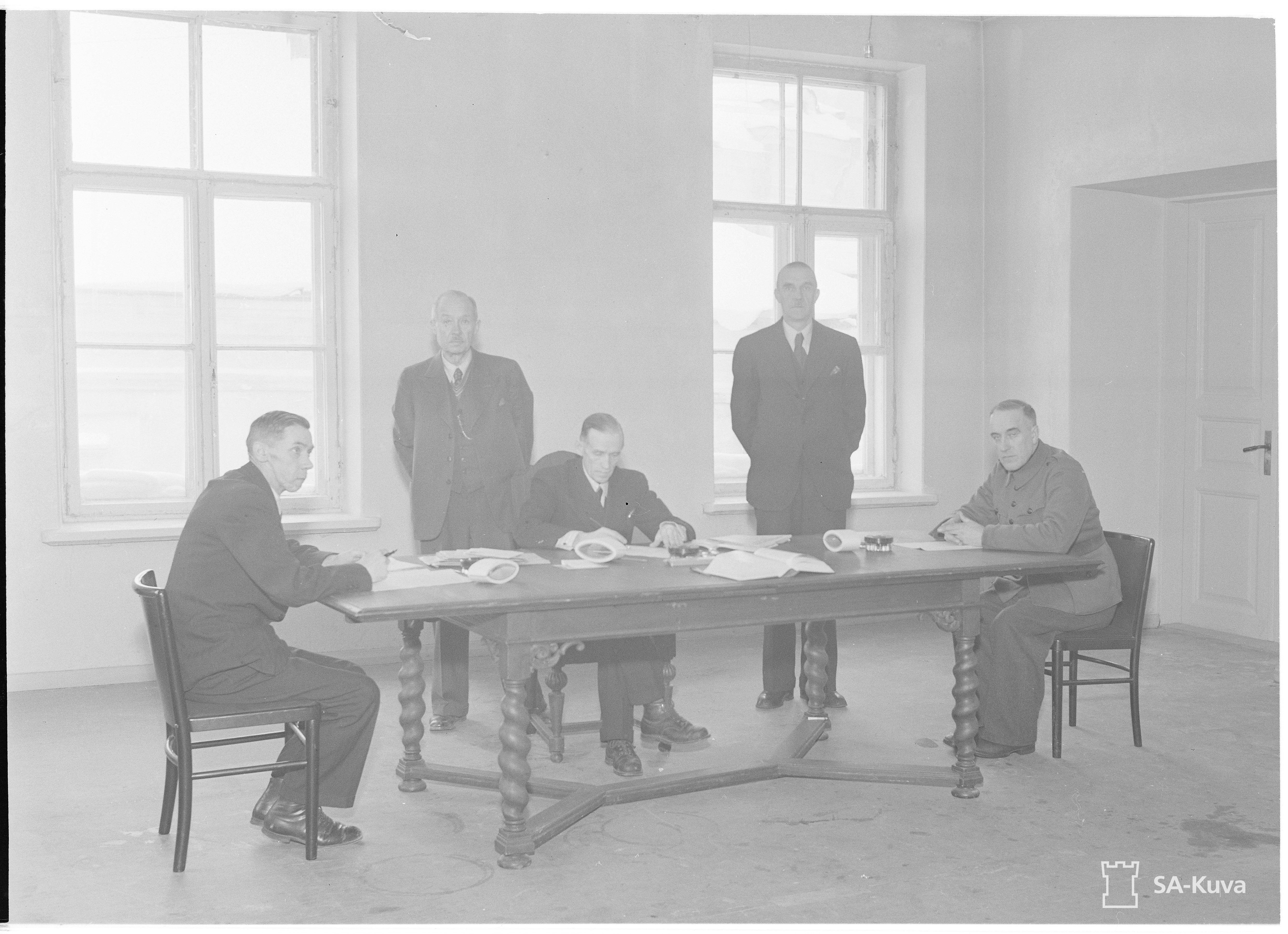 Viipurin kaupungin raastuvanoikeus istuu ensimmäistä kertaa jälleen vanhassa huoneistossaan Viipurissa. Kuvassa keskellä oikeuden puheenjohtaja, pormestari Pääkkönen, pöydän päässä, vasemmalla oikeusneuvosmies Vuolio, oikealla oikeusneuvosmies Rautakorpi. Seisomassa raastuvanoikeuden II osaston puheenjohtaja Örnbom (oikealla) ja oikeusneuvosmies Hämäläinen.